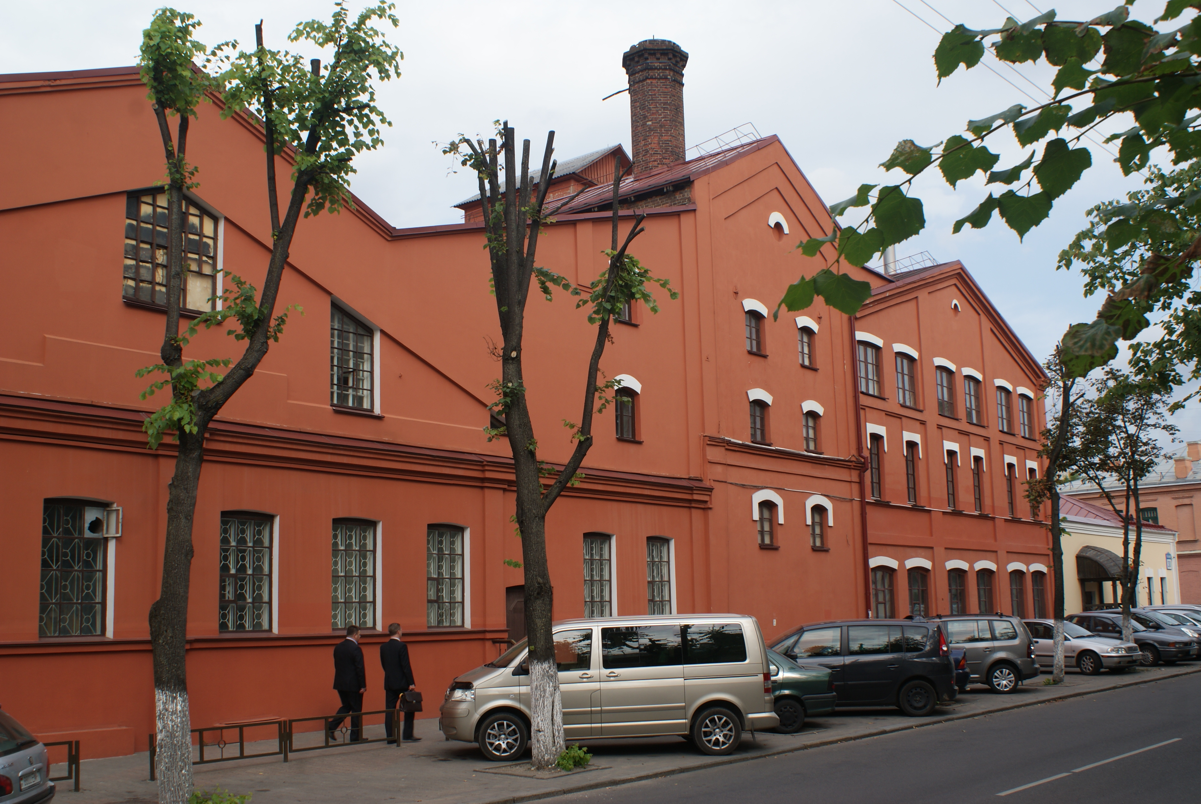 Alivaria, a brewery from Minsk, Belarus. Majority of the shares of OJSC Brewery Alivaria currently belongs to Carlberg Group.